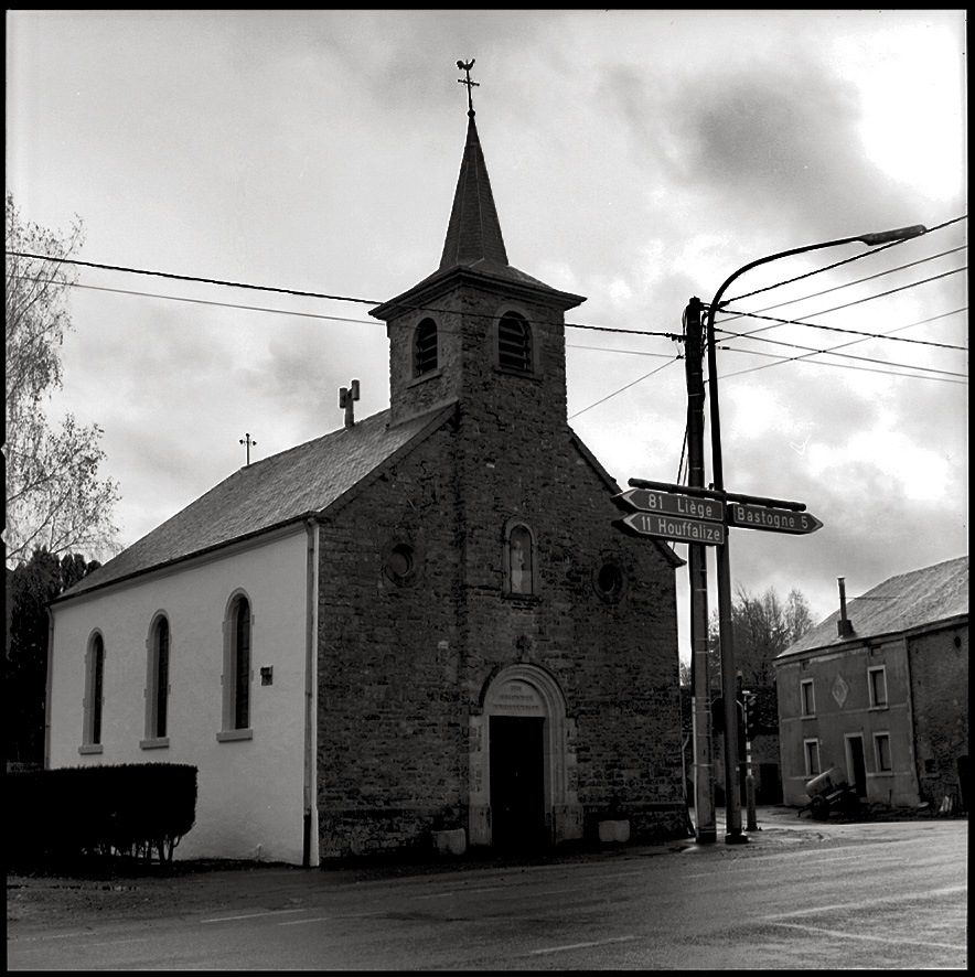 Church in Foy, Belgium